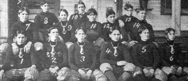 1902 East Florida Seminary football team